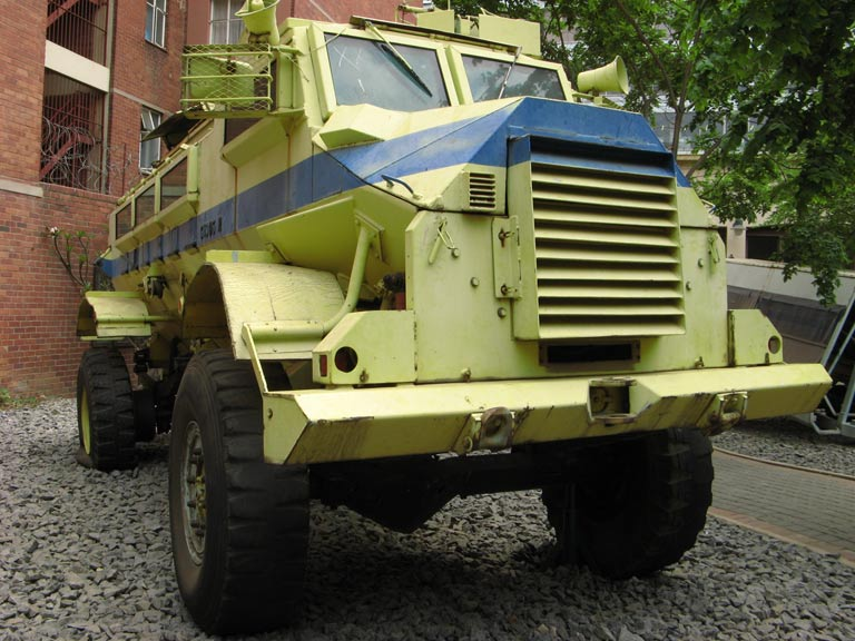 Caspir at the South African Police Museum, Pretoria.Initially the Caspir was camouflaged in matt green and brown. (During the “bush war” period). Later the yellow version was used for suburban use.